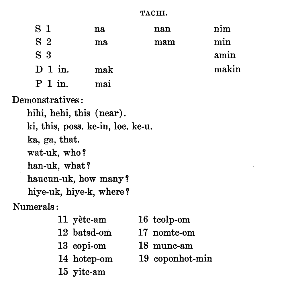 Pronouns, demonstratives, and numerals in Tachi Yokuts